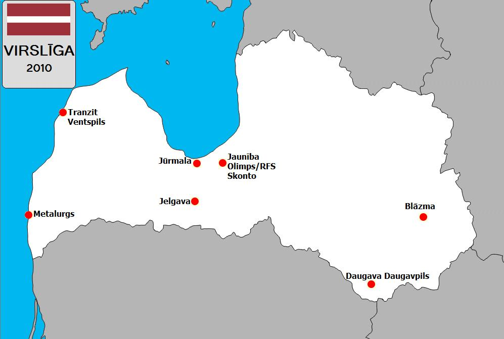 2010 Virslīga teams geographic distribution.